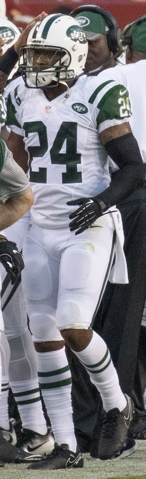 Darrelle Revis in 2016.